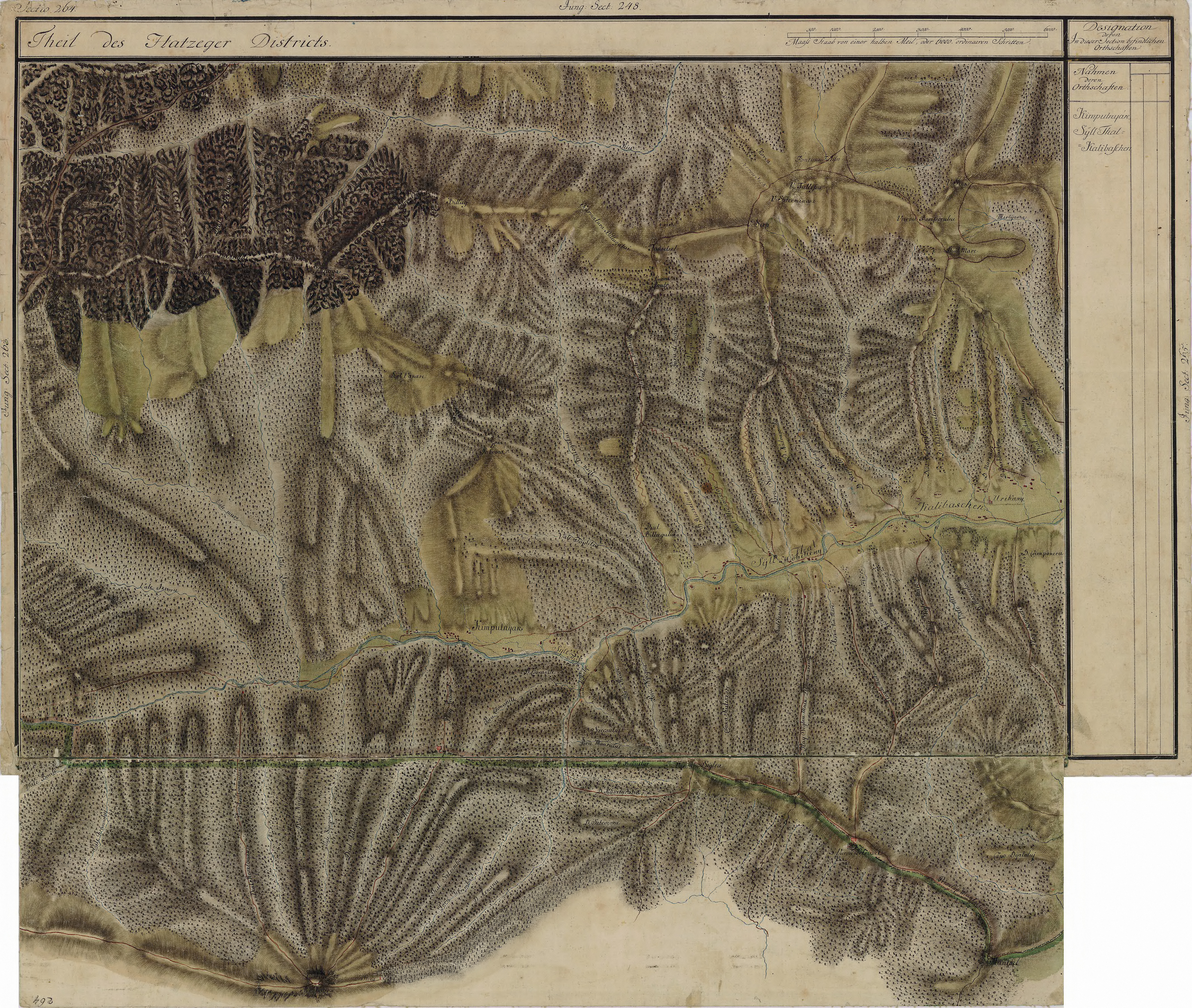 Grand Duchy of Transylvania, 1769-1773. Josephinische Landaufnahme pg.264